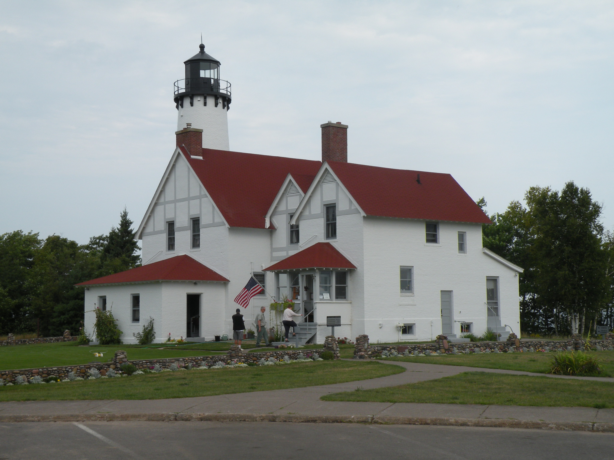 Point Iroquois Light Station, 6 mi (9.7 km) northwest of Brimley in the Hiawatha National Forest Brimley